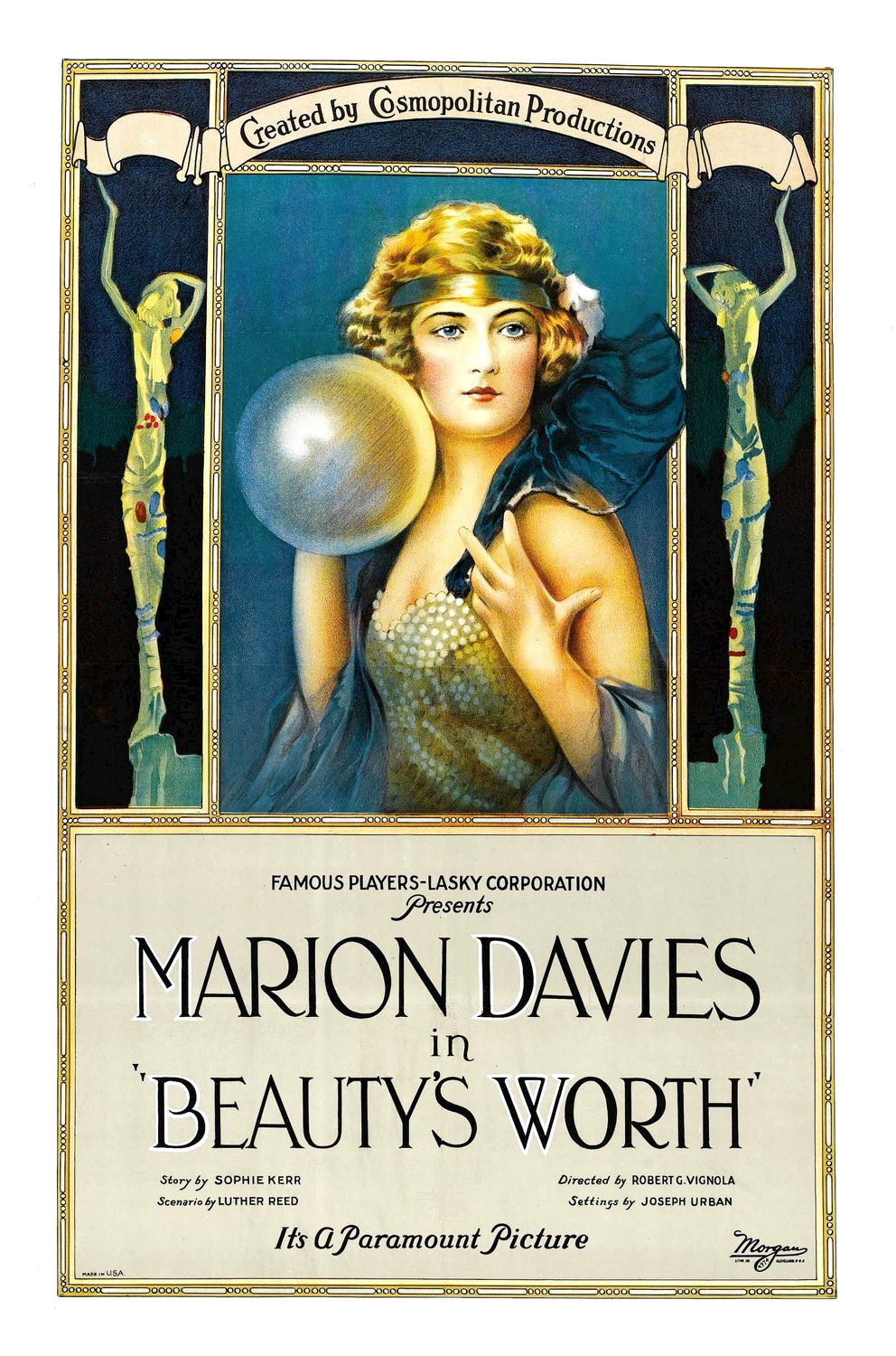 Poster from the 1922 film Beauty's Worth.